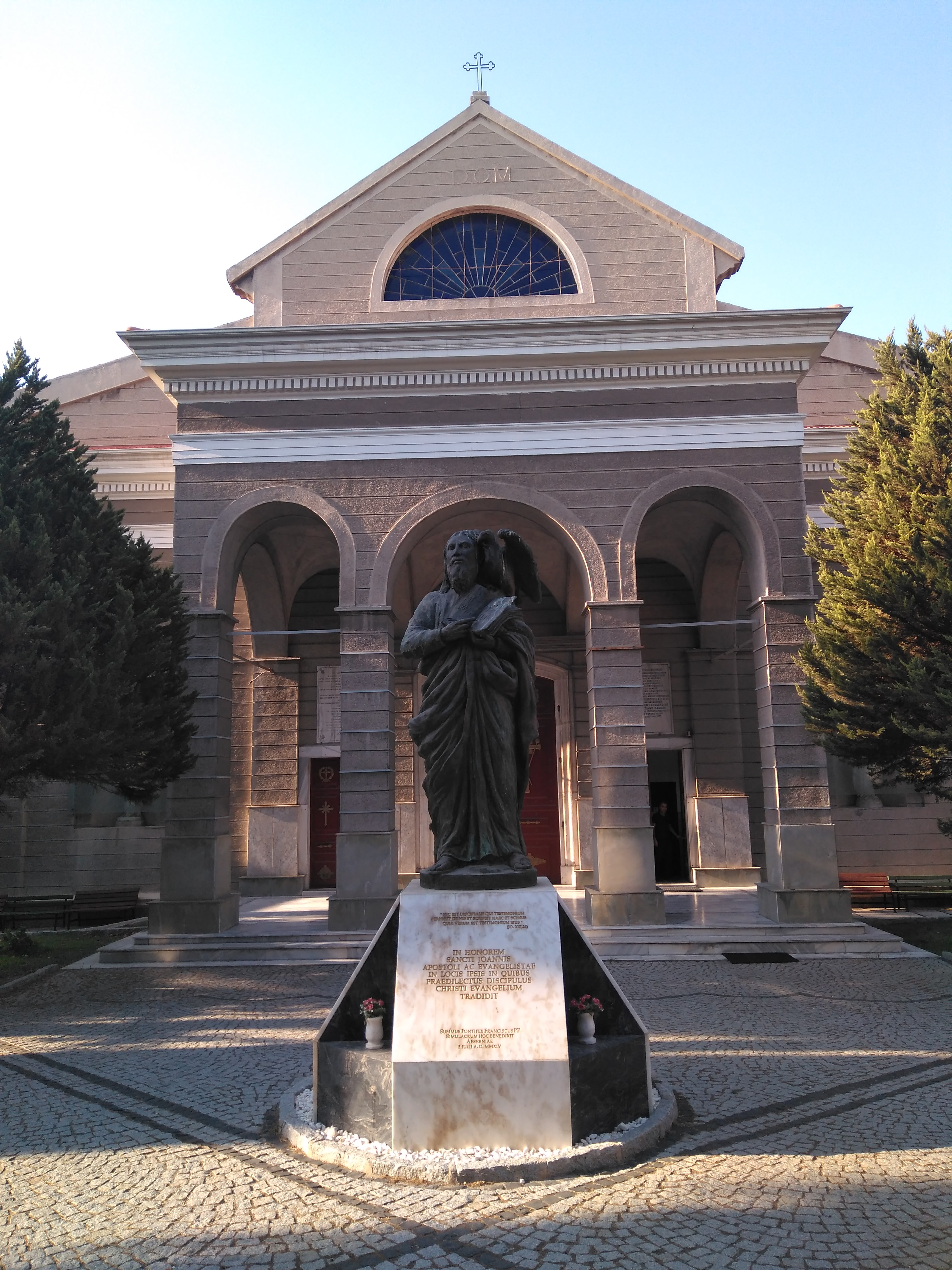 St. John's Cathedral (Izmir)